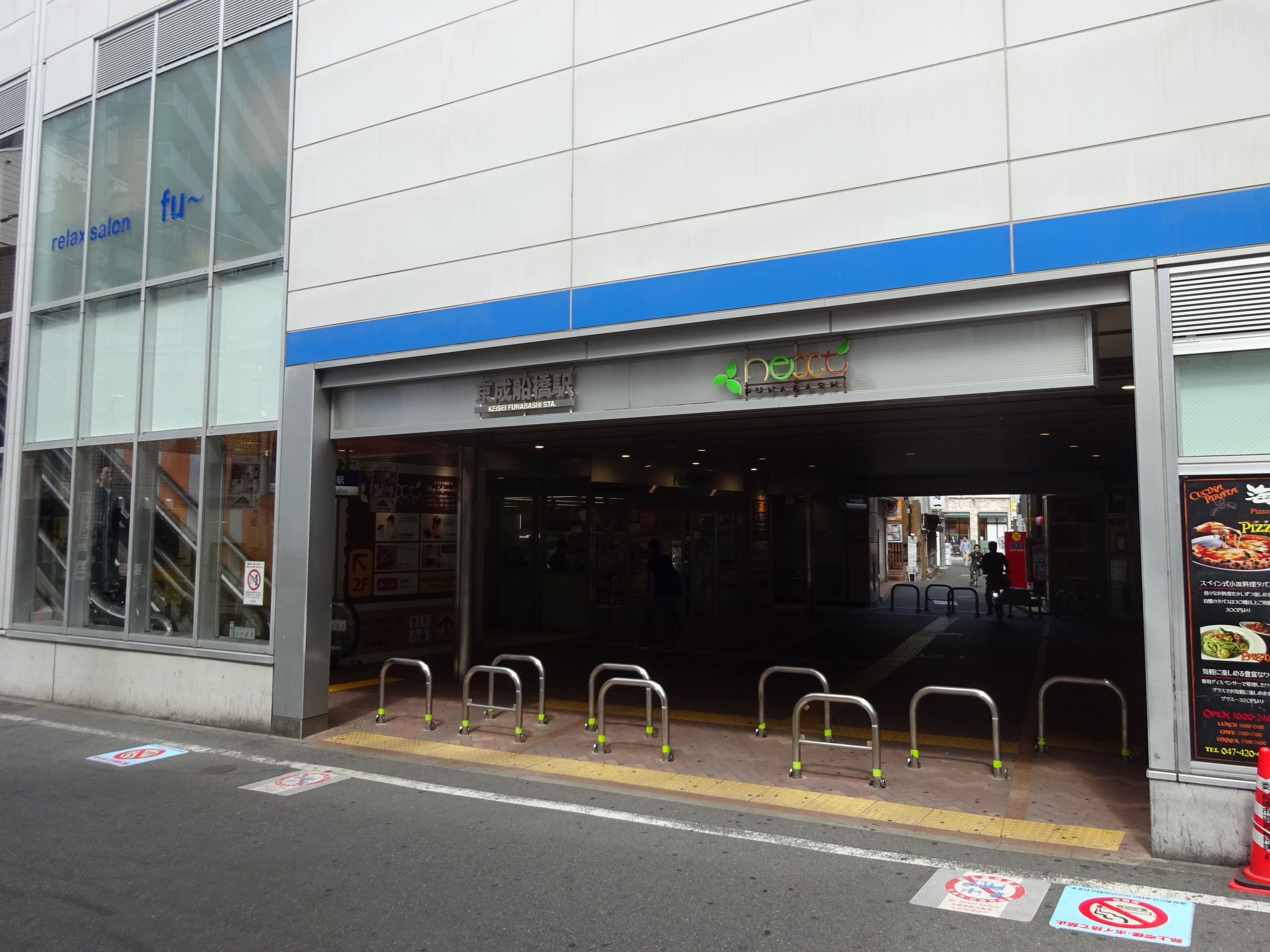 West entrance of Keisei Funabashi Station